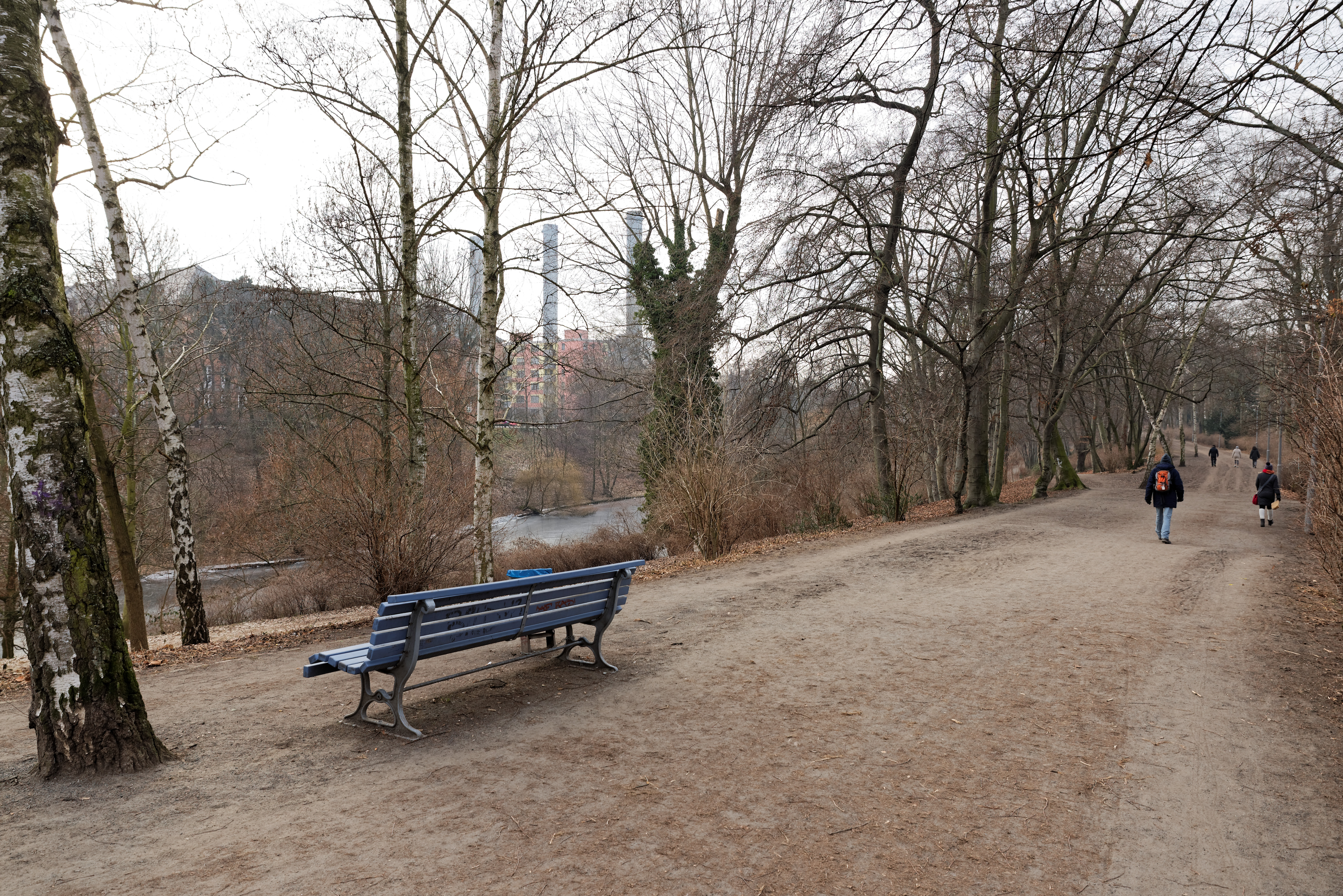 Uferpromenade am Fennsee im Winter